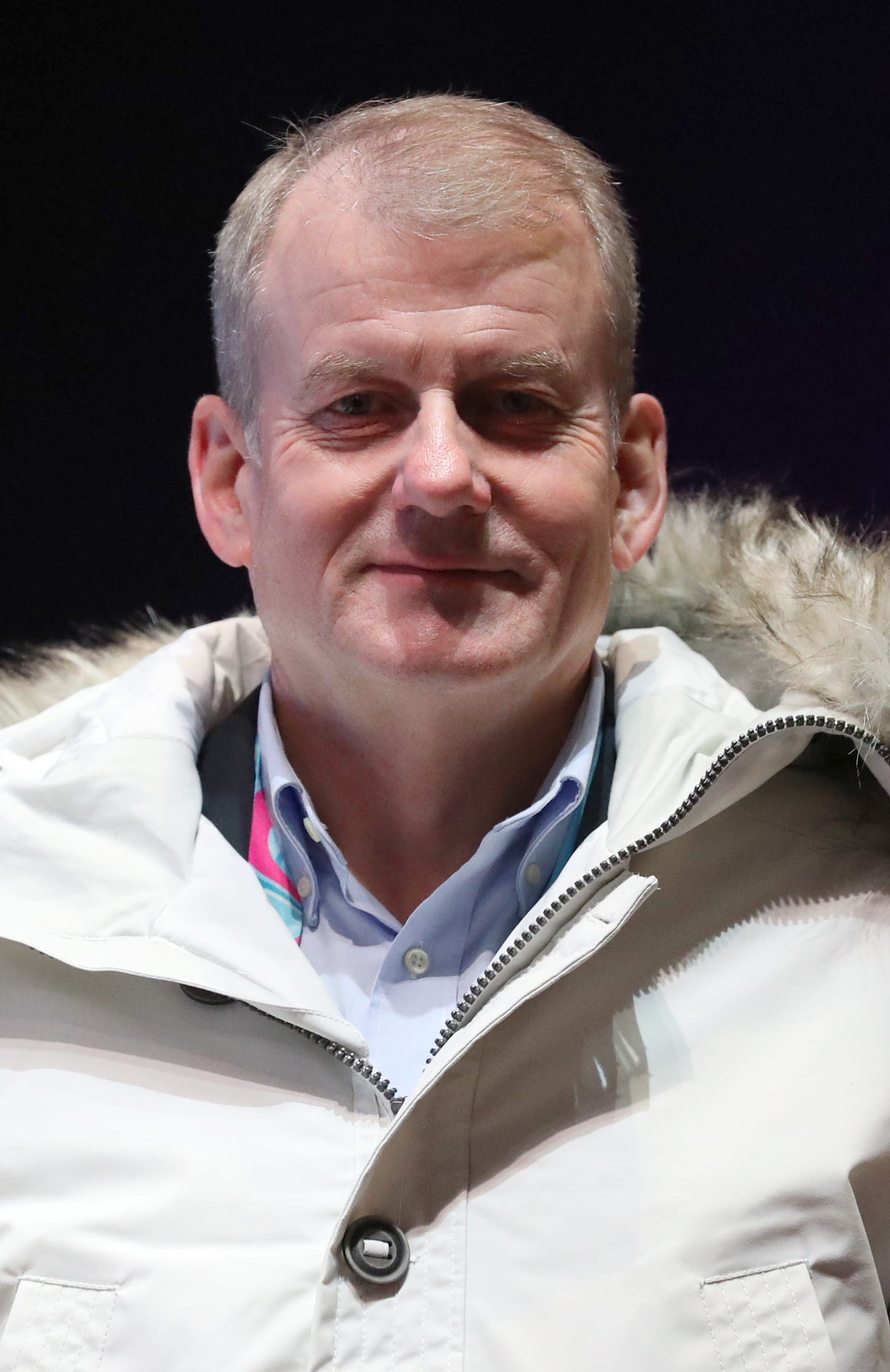 Medal Ceremony Day 6, 2020 Winter Youth Olympics in Lausanne